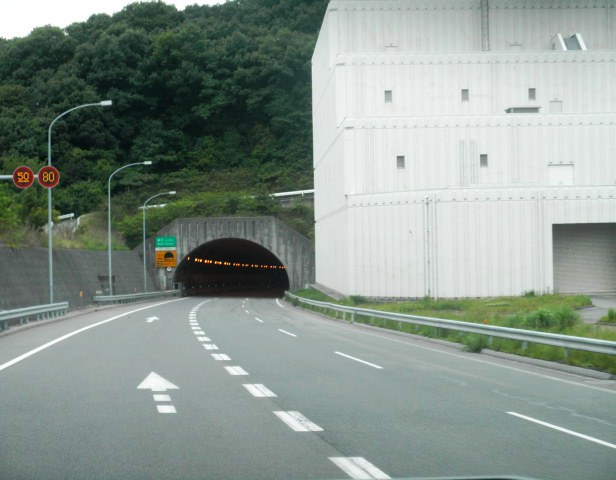 Myodanitown Tarumi-ku Kobecity Hyougopref Maiko tunnel